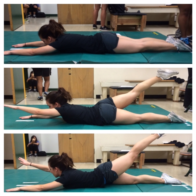 Lay in the prone position and perform alternating shoulder flexions and hip extensions.